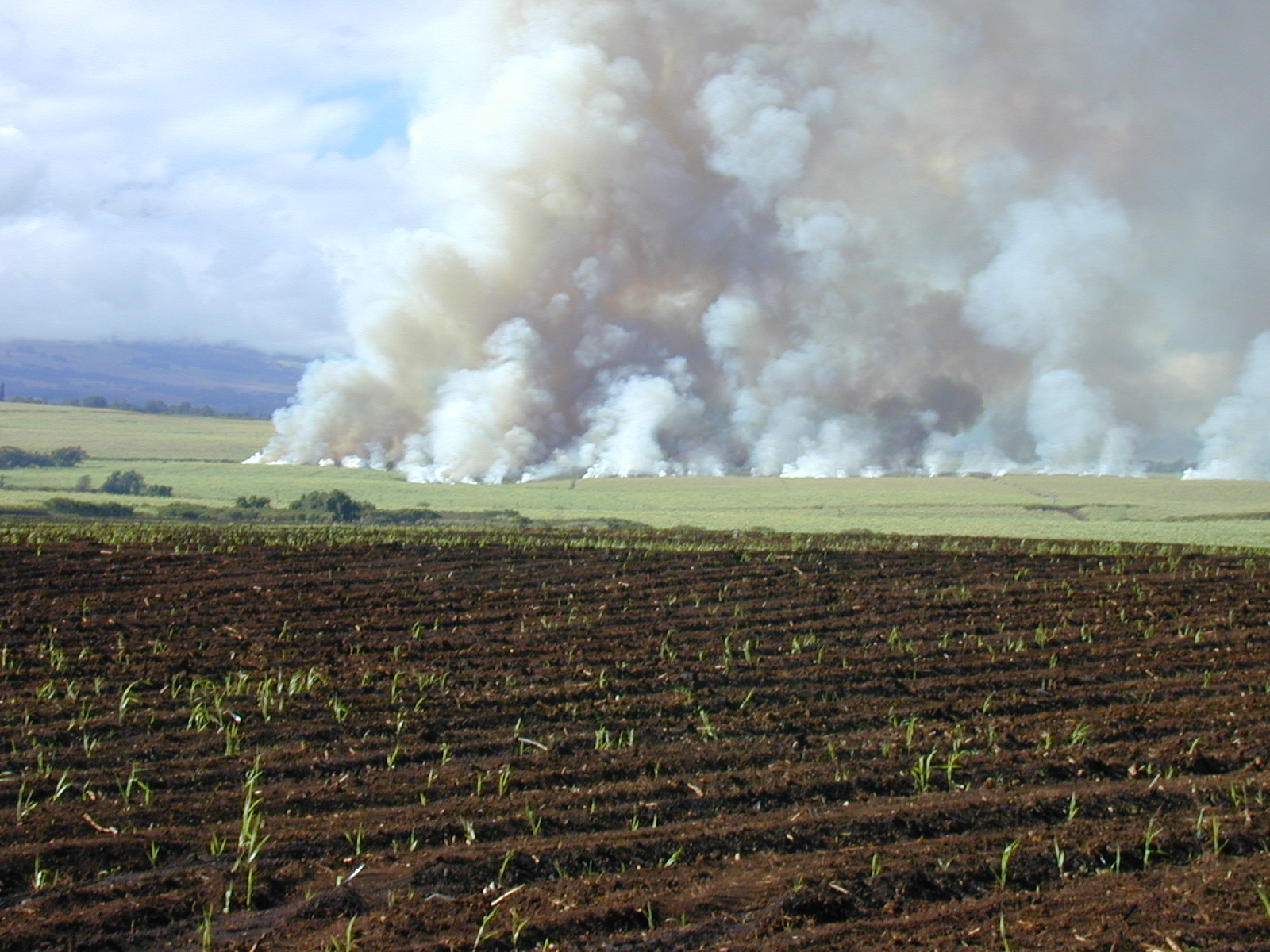 Saccharum officinarum (fire). Location: Maui, Hamakuapoko